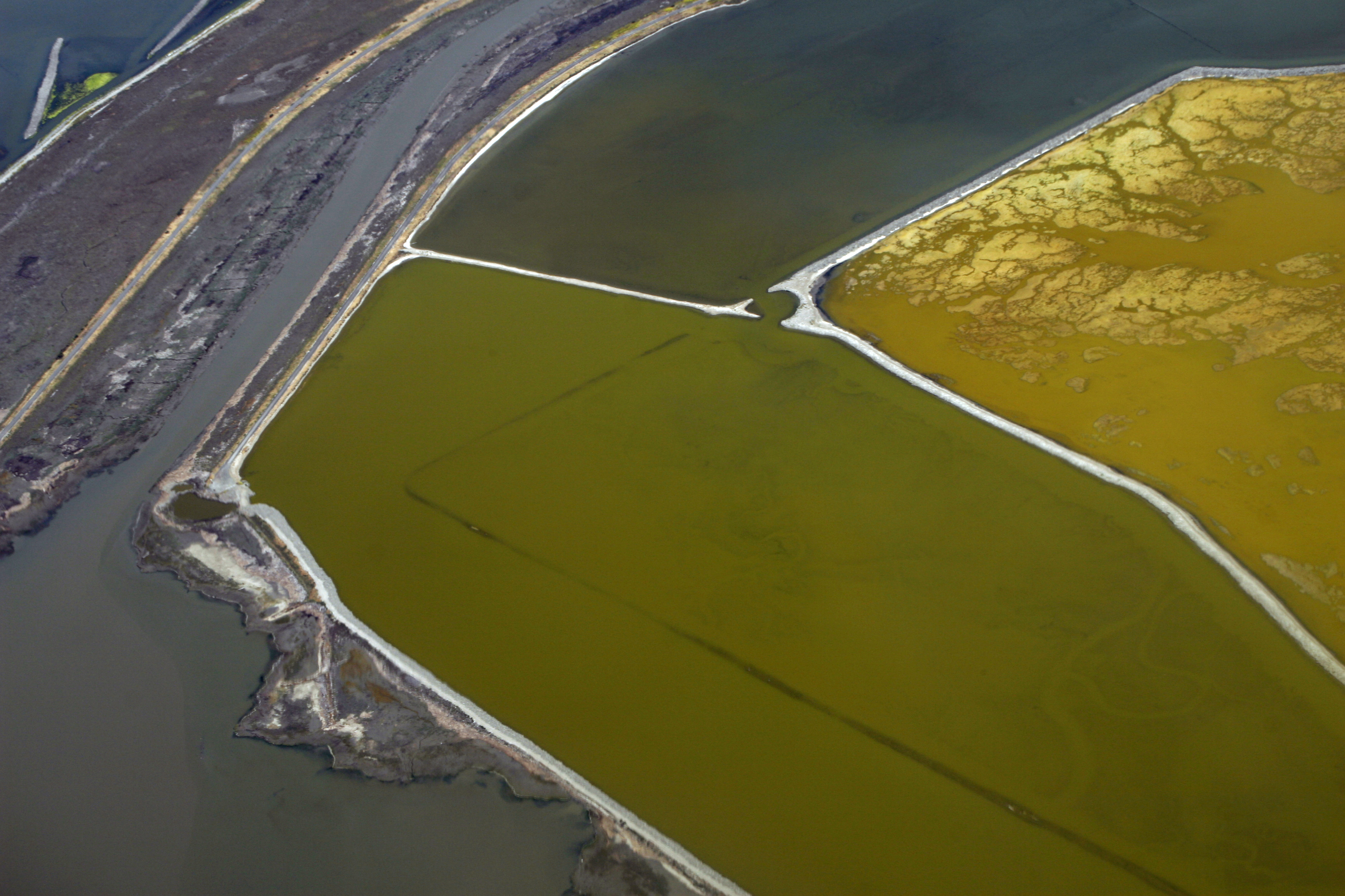 "Salt ponds in the East Bay."